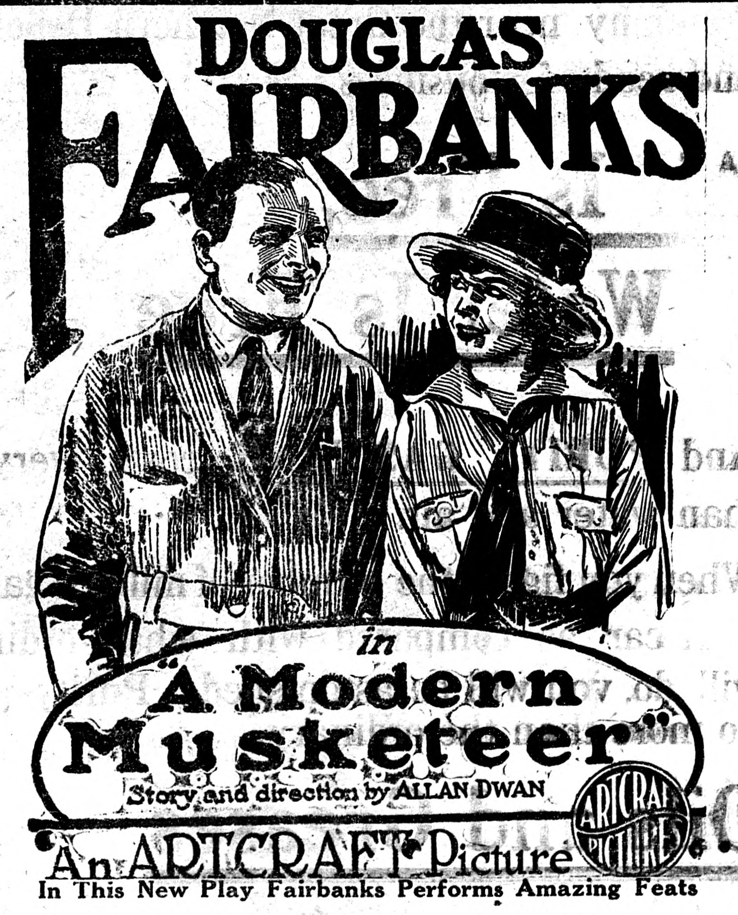 A Modern Musketeer is a 1917 silent film adventure produced by and starring Douglas Fairbanks and distributed through Artcraft Pictures, an affiliate of Paramount. This is from a newspaper advertisement.